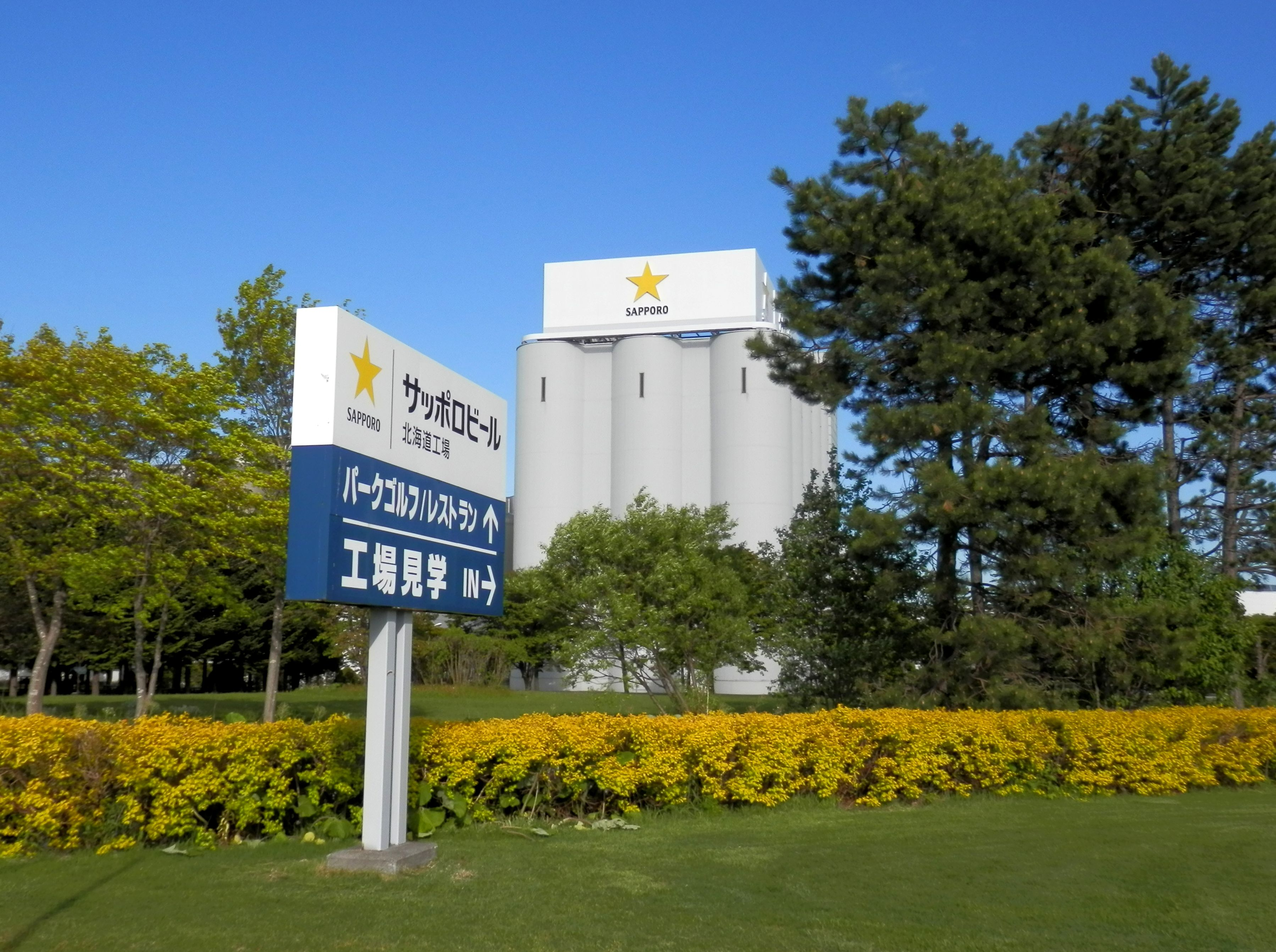 Sapporo Beer Hokkaido Factory in Eniwa, Hokkaido.